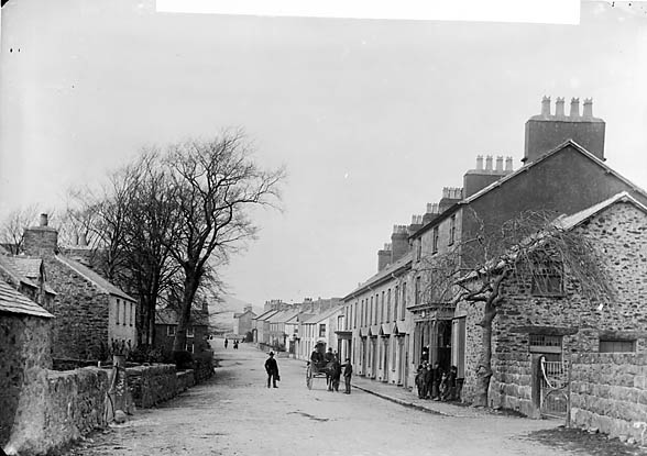 1 negative : glass, dry plate, b&w ; 12 x 16.5 cm.